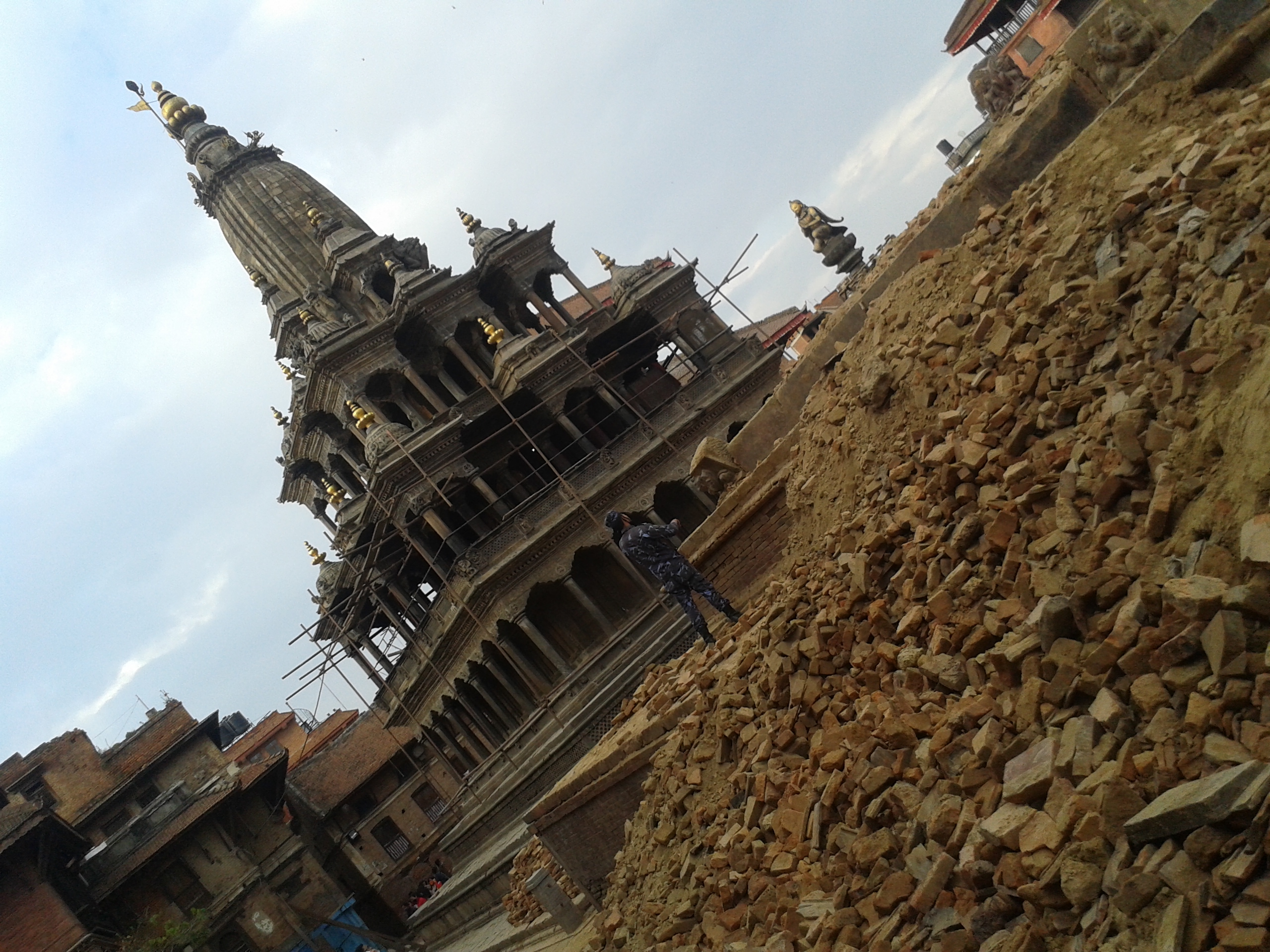 Rubble of stones and bricks around the right side of Krishna Mandir situated at Mangal Bazaar in front of Patan Durbar Square. Many temples were completely destroyed, falling down on people, injuring them.